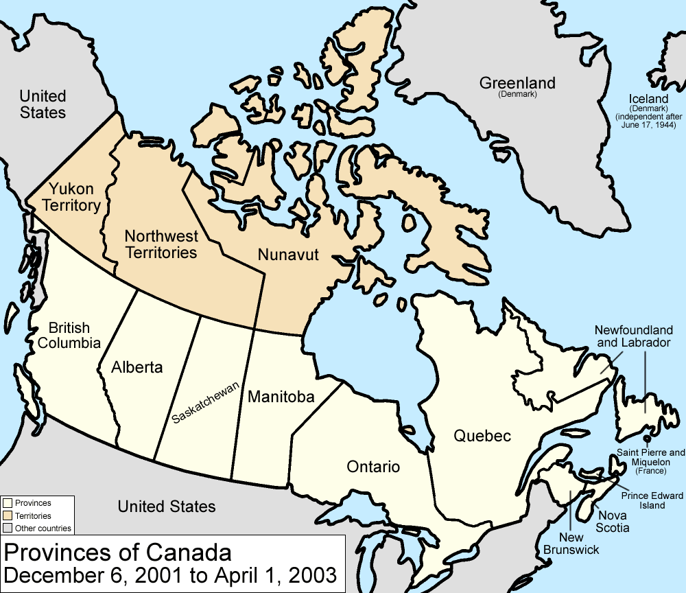 Map of the provinces and territories of Canada as they were between 2001 and 2003. On December 6, 2001, Newfoundland was renamed Newfoundland and Labrador. On April 1, 2003, Yukon Territory was renamed Yukon.